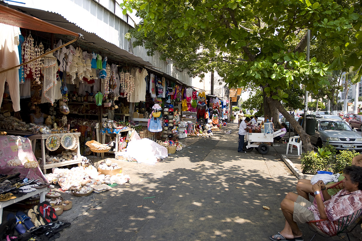 It never fails - they're pushy no matter where you go. Especially if you look like a tourist.